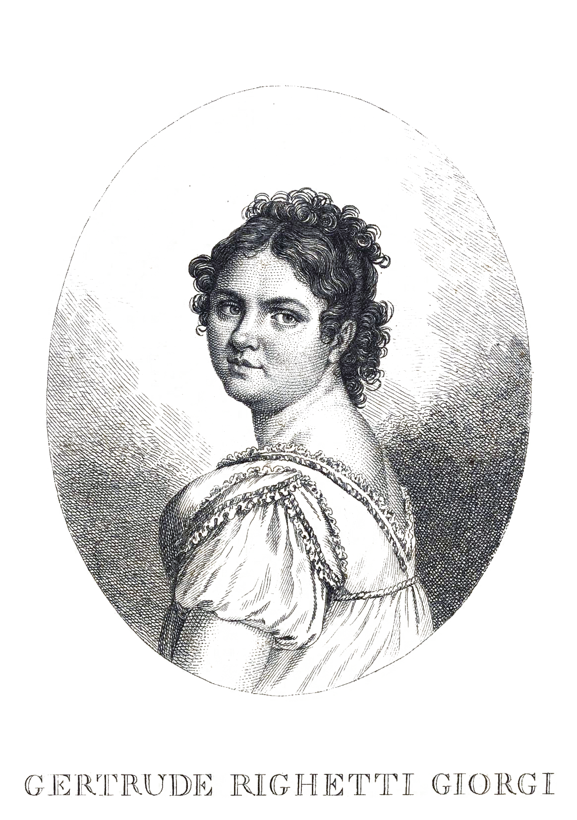 Portrait of the Italian contralto Geltrude Righetti-Giorgi (1793–1862)